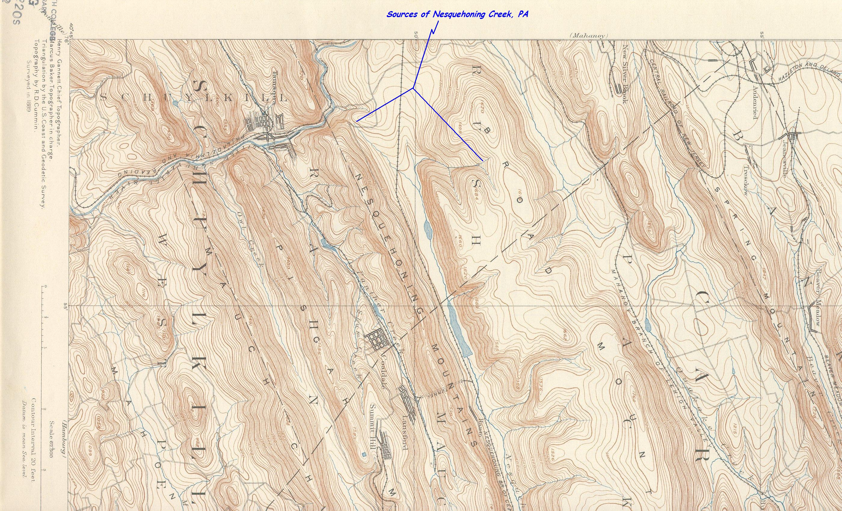 This excerpt of the Hazleton, PA Quadrant shows the head water sources of the Nesquehoning Creek tributary of the Lehigh River and the important climb up that gradient which allowed railroads to service the interior of the Pennsylvania Southern Anthracite Coal Region.